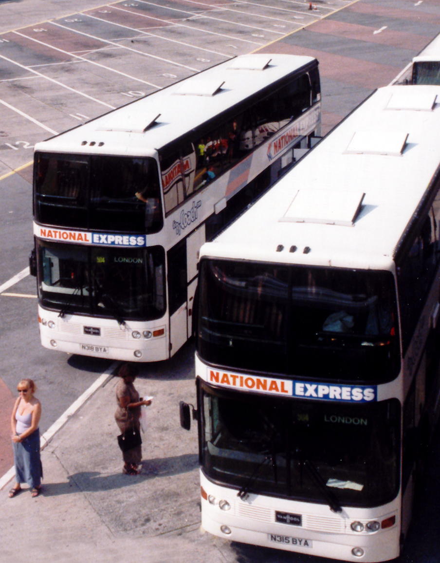 Plymouth Bretonside 2001